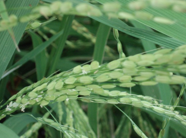 Shot with my own Sony W30 Digital Camera